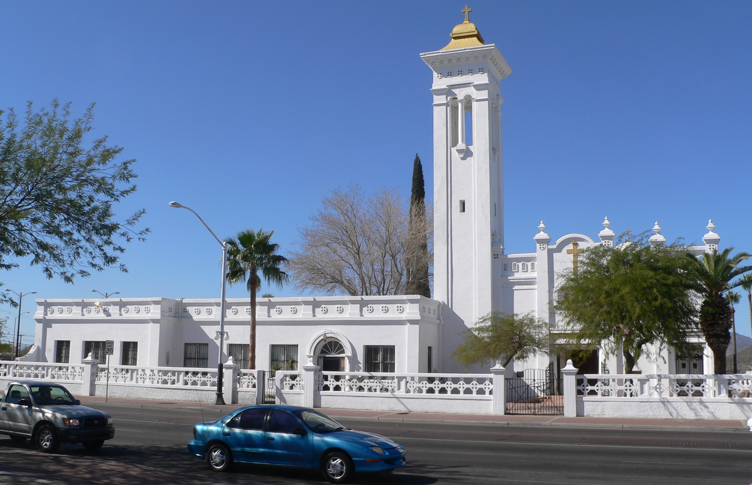 Santa Cruz Catholic church, located at southwest corner of 22nd Street and 6th Avenue in Tucson, Arizona; seen from the east, across 6th.